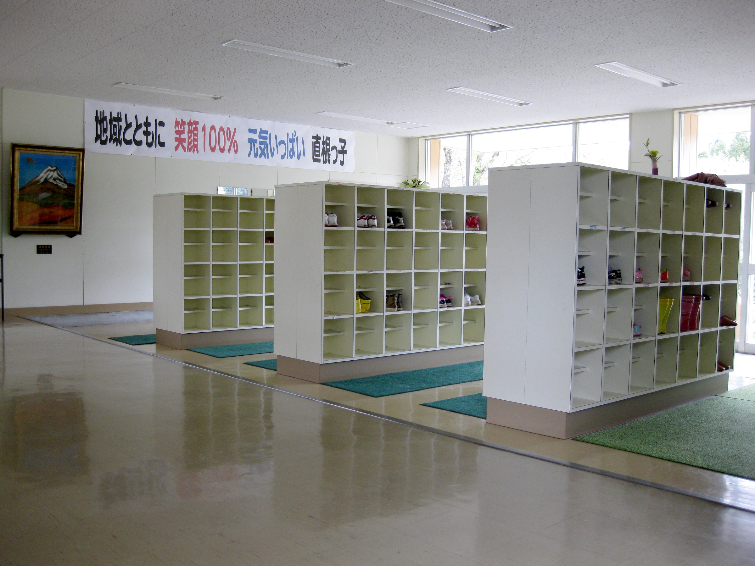 Japanese school main door and shoe locker. Hitane Elementary School. Hitane, Chokai, Yurihonjo, Akita, Japan.